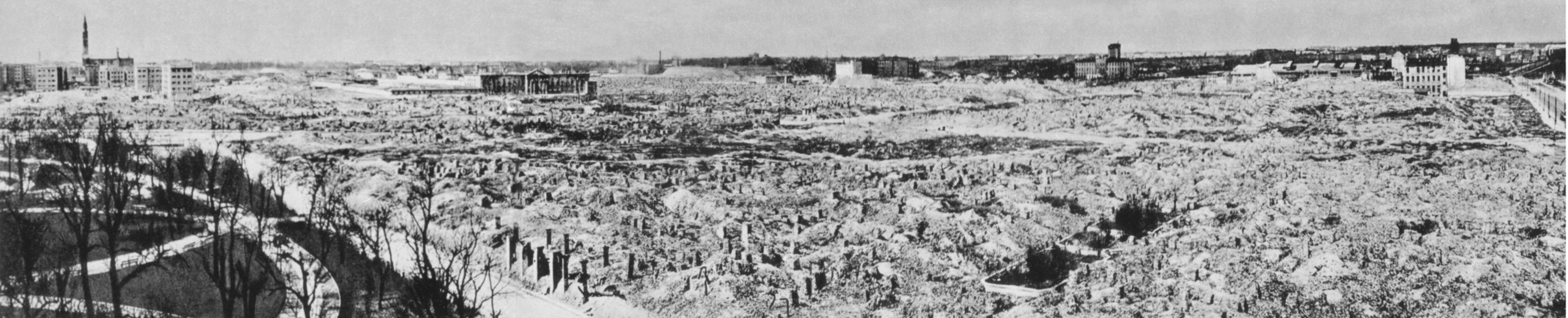 Warsaw Ghetto, smashed into the ground by German forces, according to Adolf Hitler`s order, after suppression of the Warsaw Ghetto Uprising in 1943. North-west view, left - the Krasinski`s Garden and Swietojerska street, photo taken in circa 1950